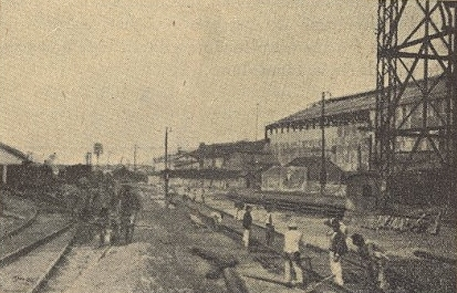 Duplication of the track between the Barreiro and Lavradio railway stations, in the South Railway (actual Alentejo Railway), in Portugal. The building being built on the right is an boiler workshop. This photograph was published in the Gazeta dos Caminhos de Ferro magazine No. 1144, of 16th August 1935, and scanned by the Hemeroteca Municipal de Lisboa.